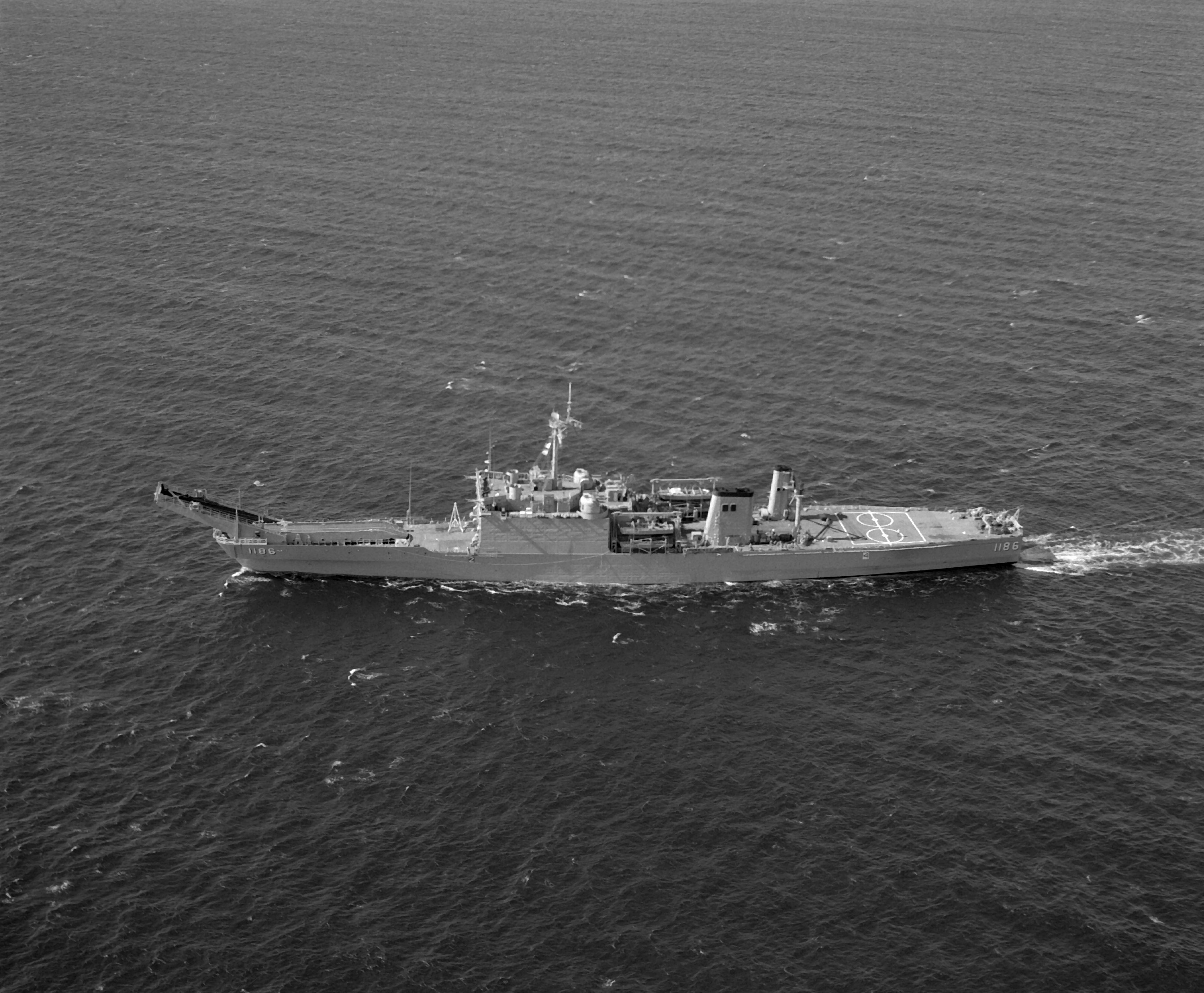 An elevated port view of the tank landing ship USS CAYUGA (LST-1186) underway.